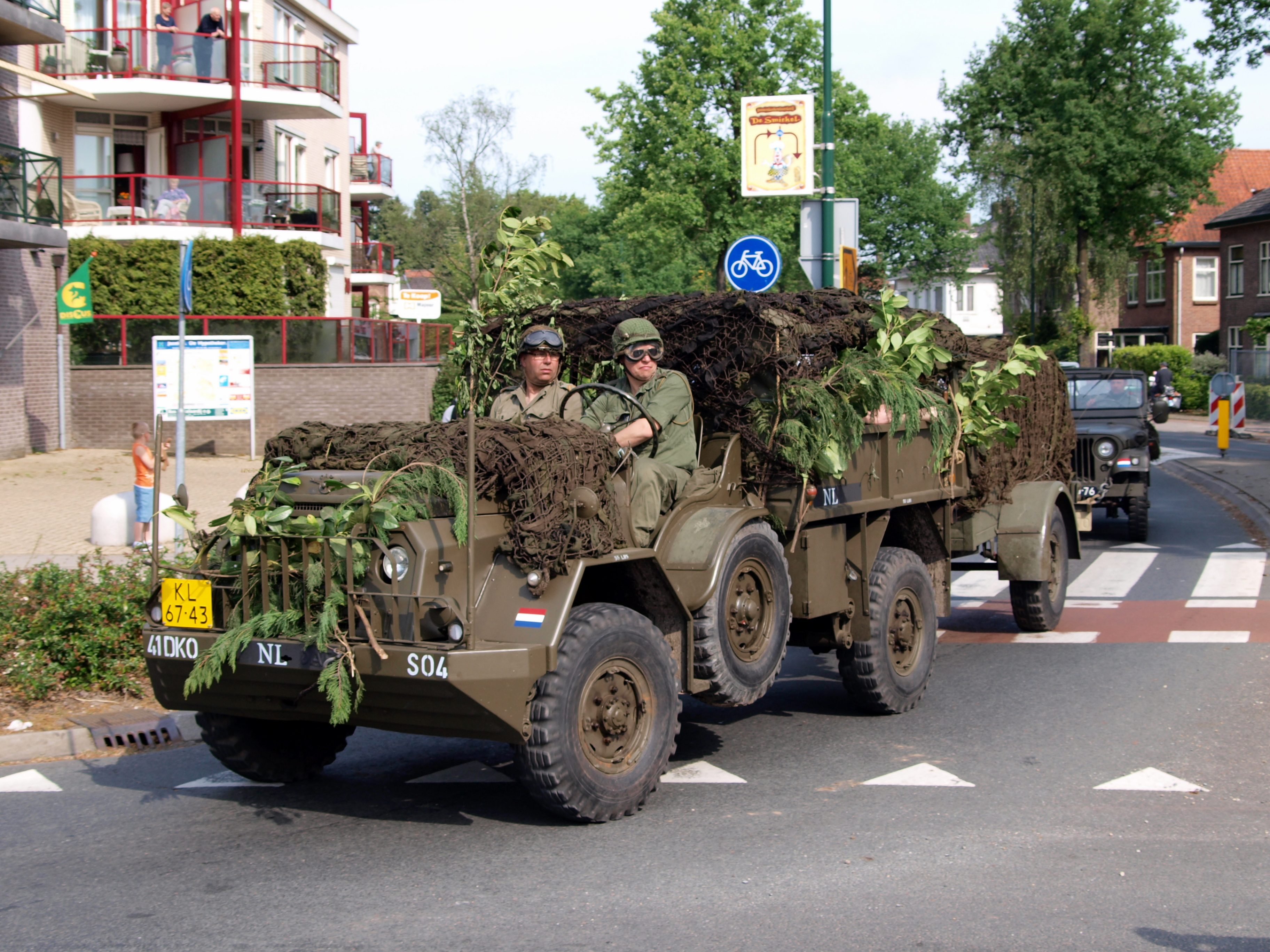 DAF YA-126, Bridgehead 2011